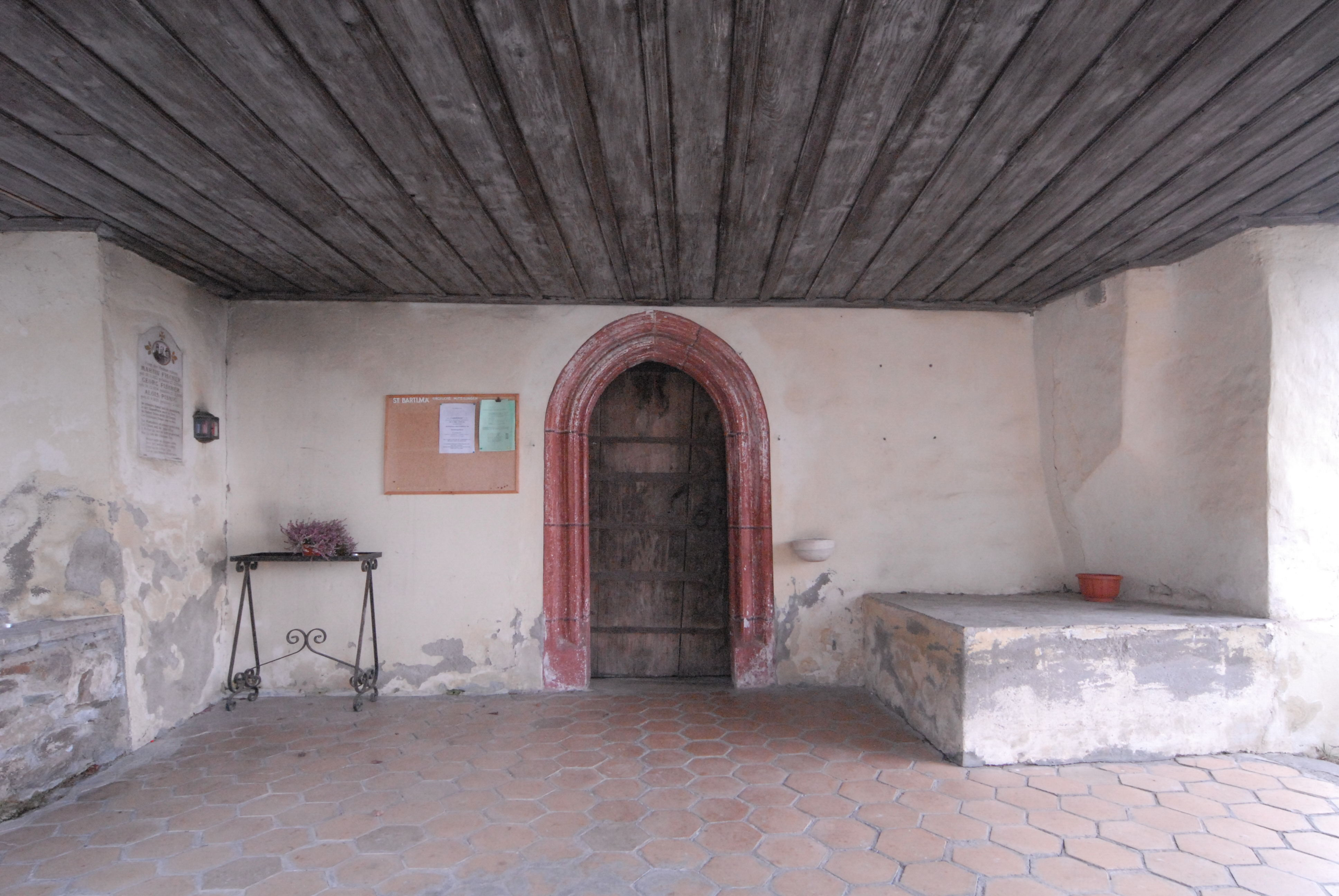 Porch and portal of the subsidiary church Saint Bartholomew with cemetery in Sankt Bsrtlmä, municipality Techelsberg, district Klagenfurt Land, Carinthia, Austria, EU